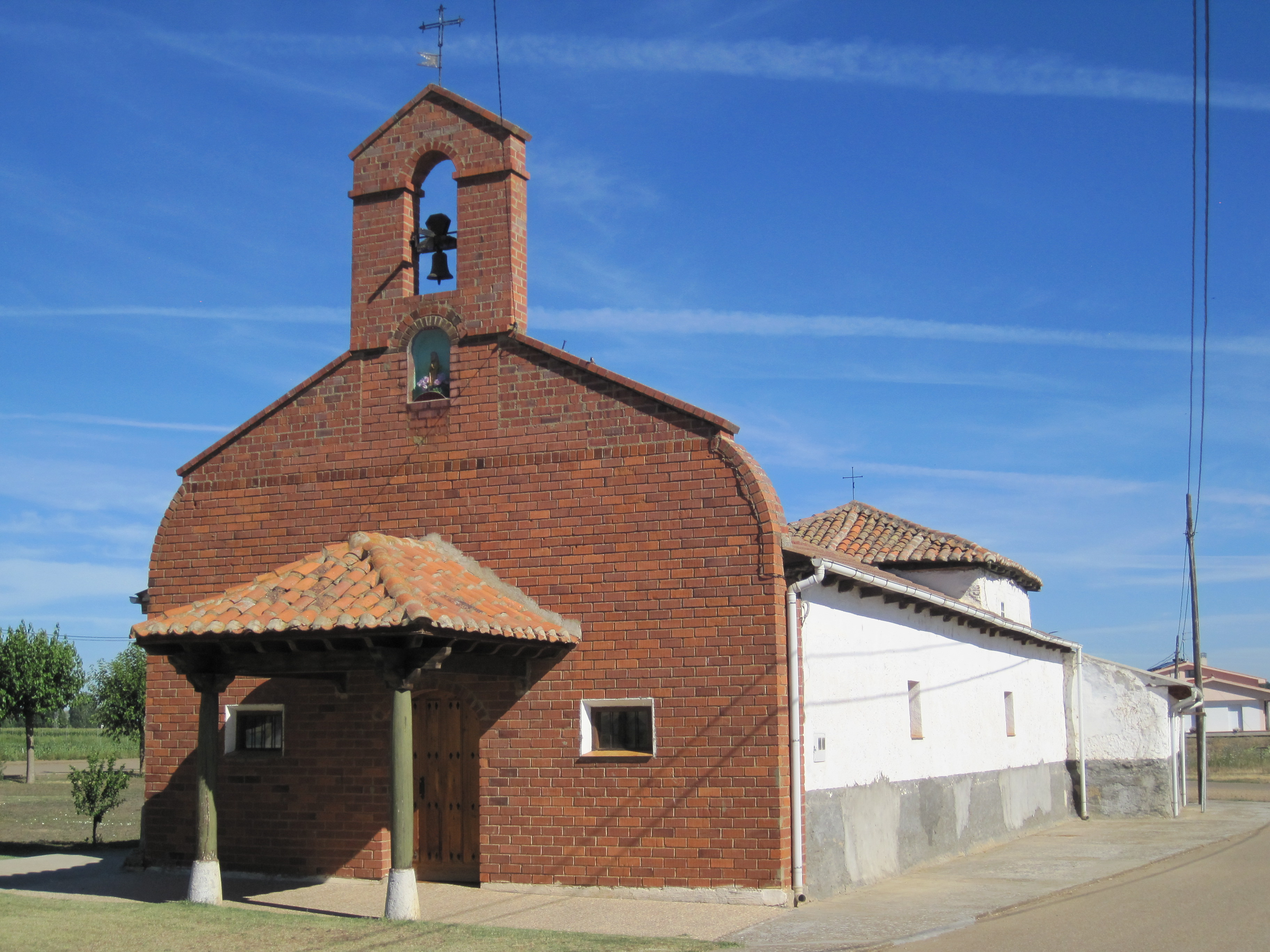 Imagen tomada en Bercianos del Páramo (León).